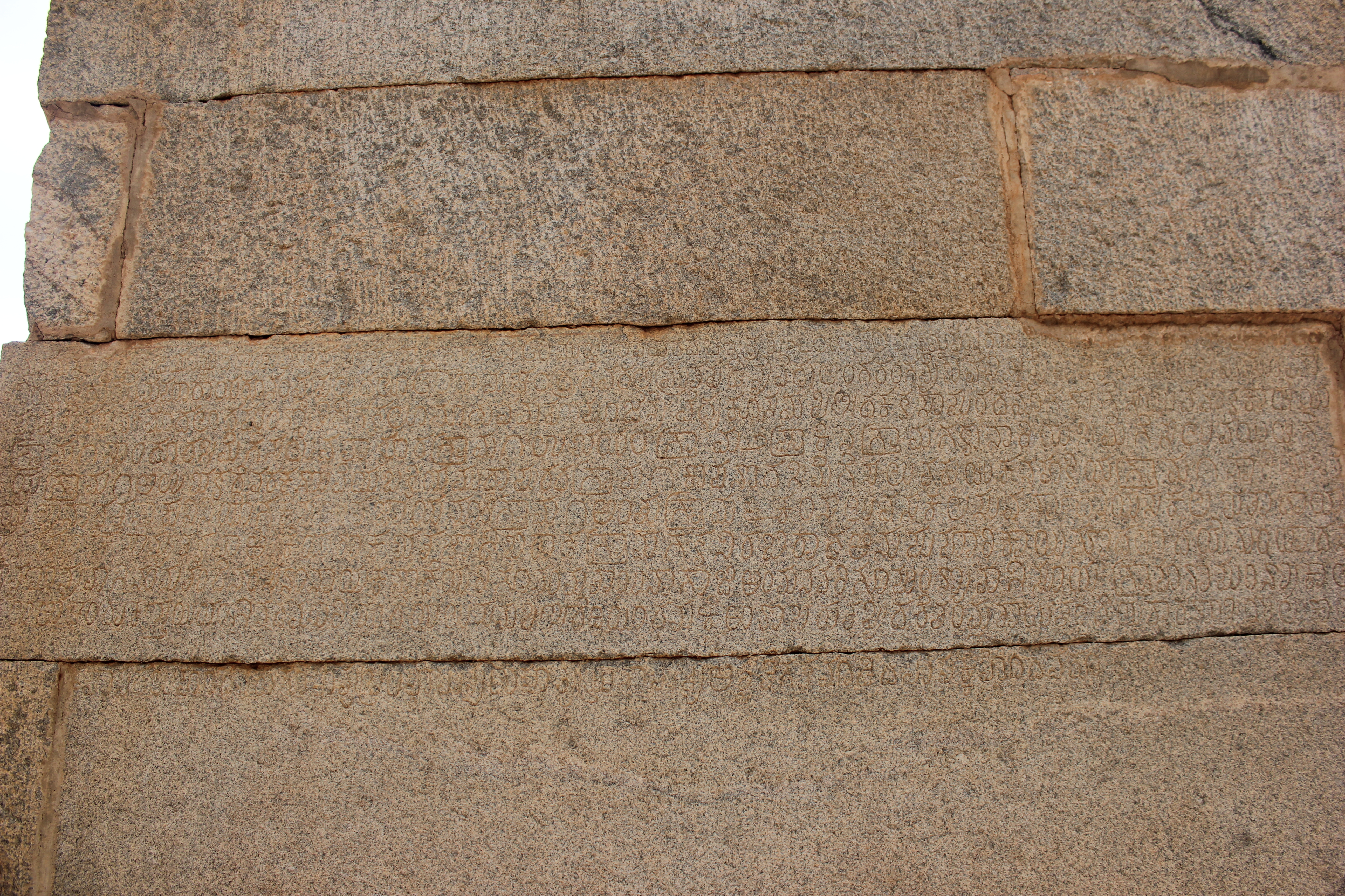 This photograph of a Kannada language inscription of King Deva Raya I (1406-1424 AD) was taken by me in the Hazara Rama temple at Hampi, a UNESCO world heritage site in Bellary district, Karnataka state, India